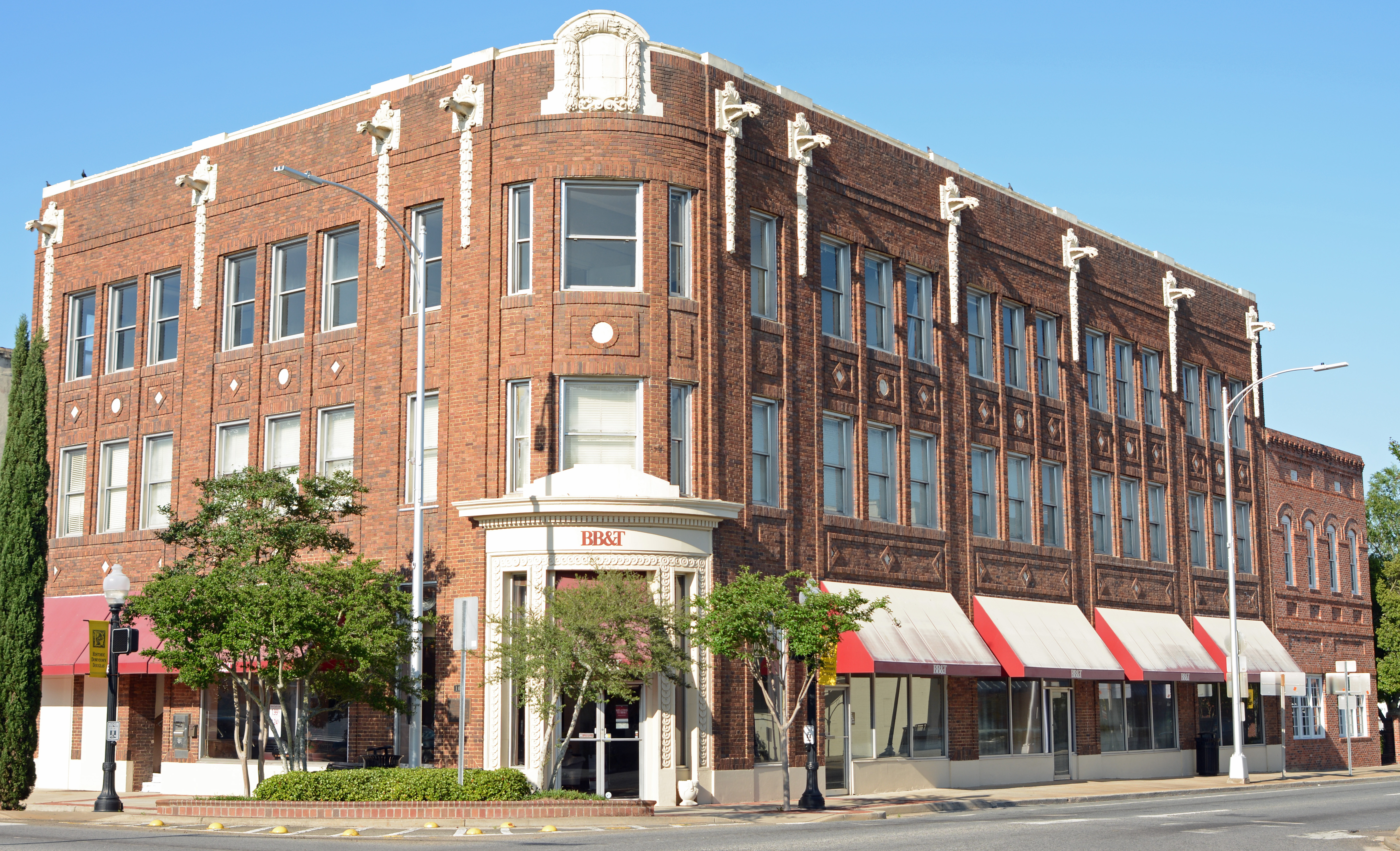 Union Banking Company building, Douglas, GA, USA in 2015